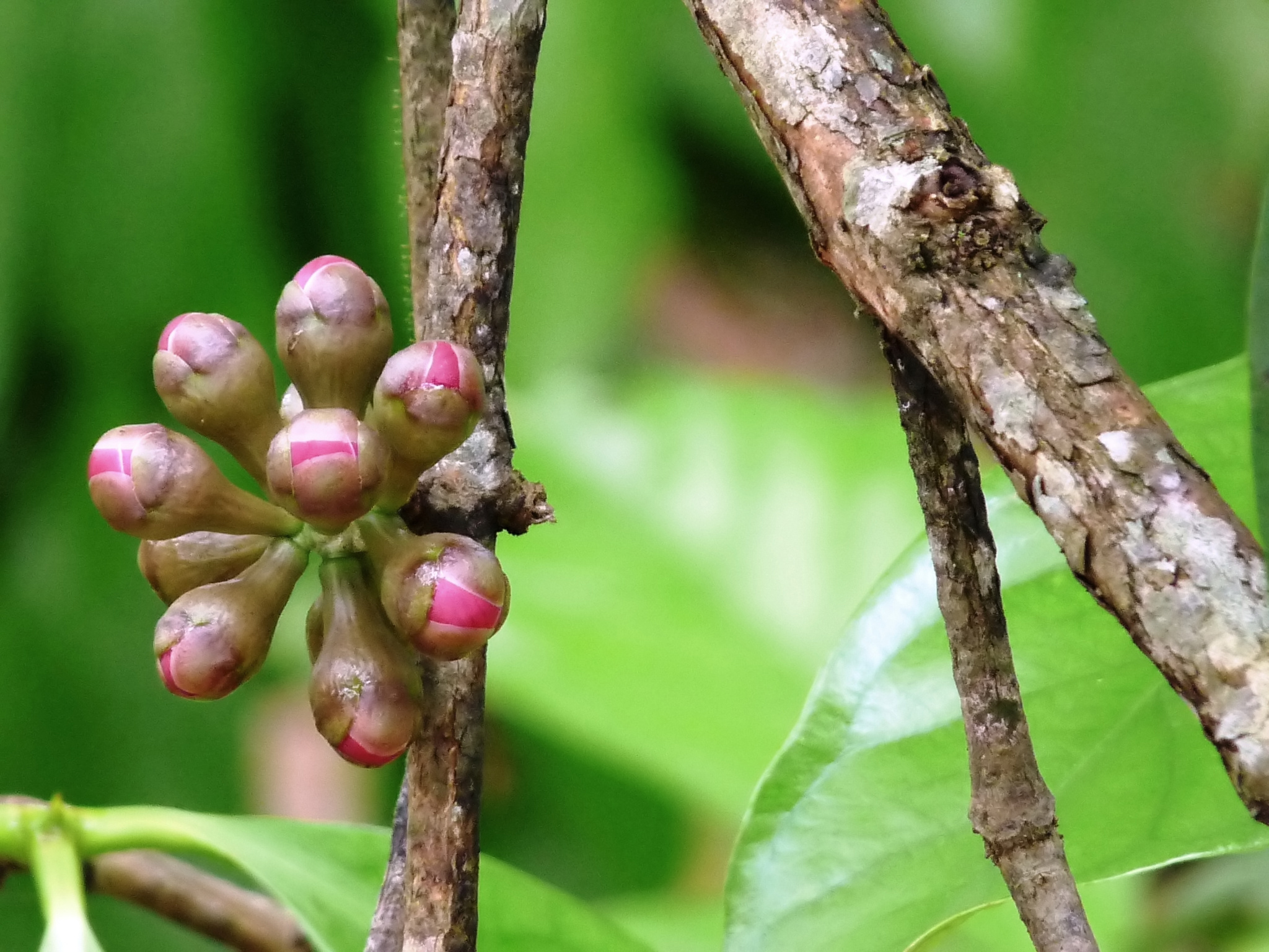 Syzygium malaccense, Malay Apple, is native to Malaysia, but has been introduced in many tropical countries, including India. It is a medium sized tree, growing up to 60 ft tall. The evergreen leaves are opposite, soft leathery and dark green: the flowers are purplish - red and form a carpet after falling under the tree. The fruit is oblong to pear shaped with a dark red skin and white flesh; sometimes it is seedless. The fruit is oblong-shaped and dark red in color, although some varieties have white or pink skin. The flesh is white and surrounds a large seed.